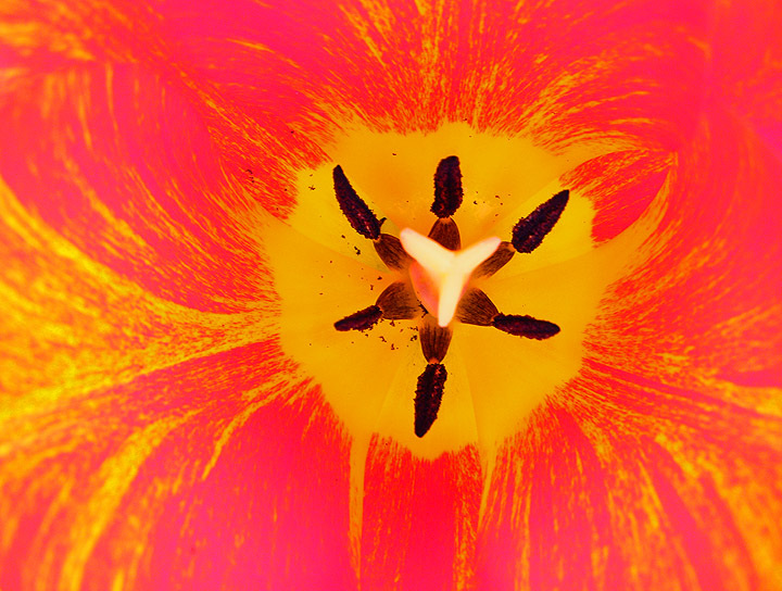 Red tulip close up, [foto by P.B.Toman]